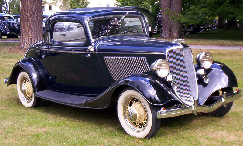 Ford Model 40 720 De Coupé 1933